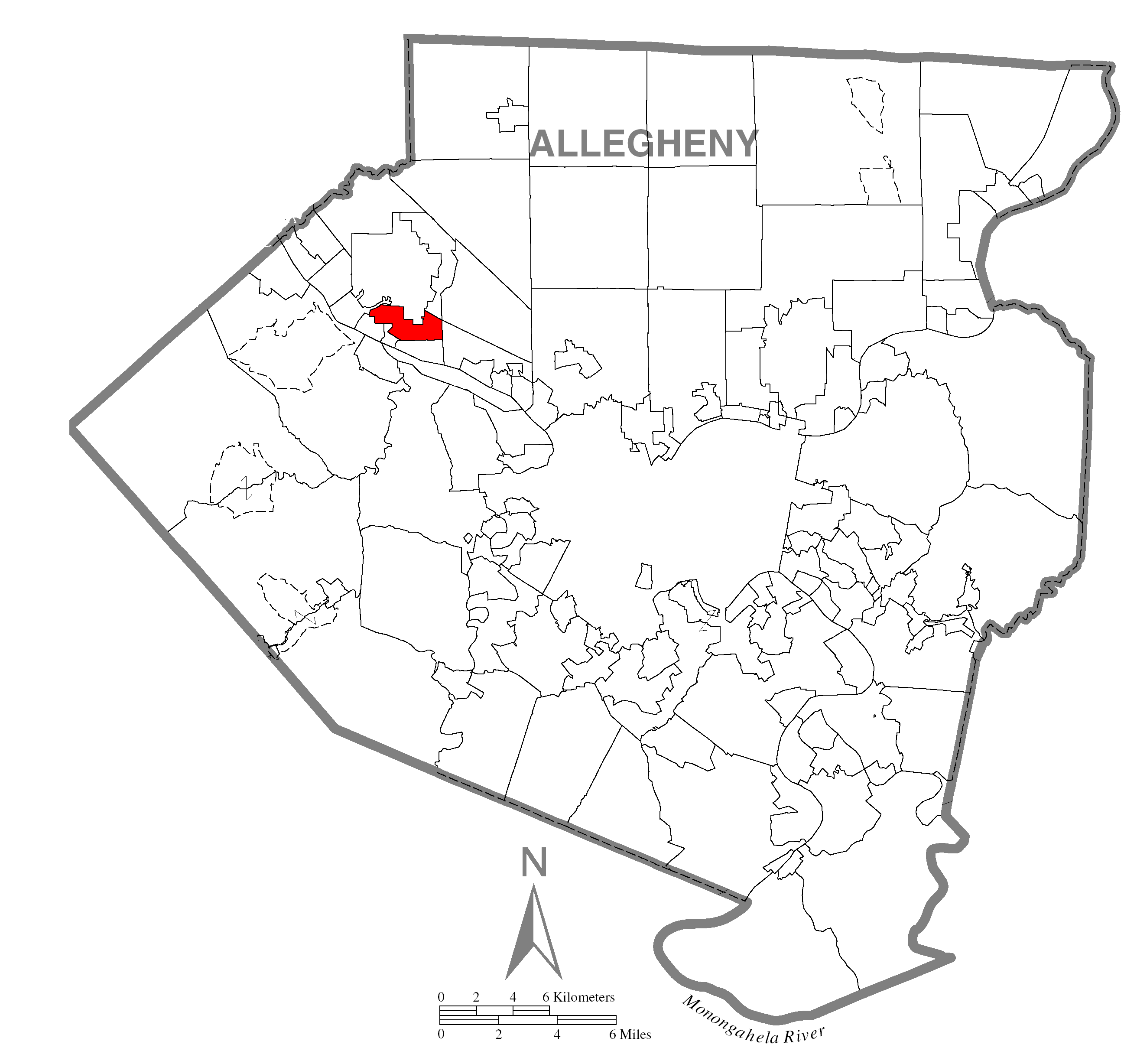 A map of Allegheny County showing Aleppo Township, Pennsylvania (alternate) highlighted on the map.